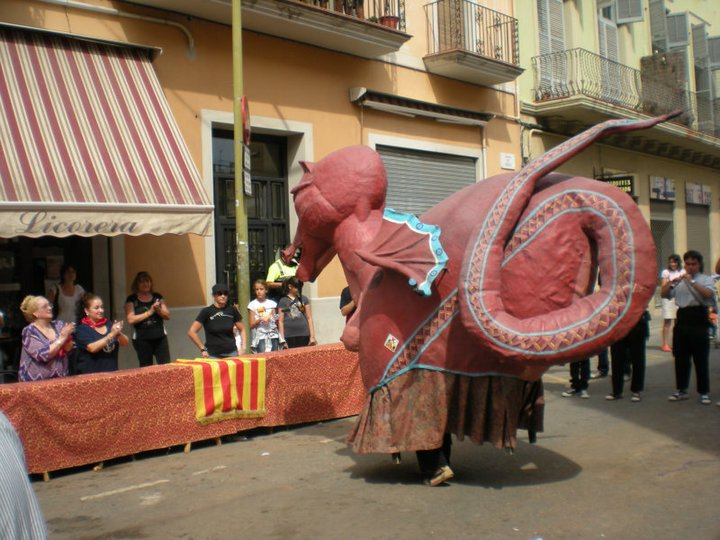 The Víbria of Poblenou